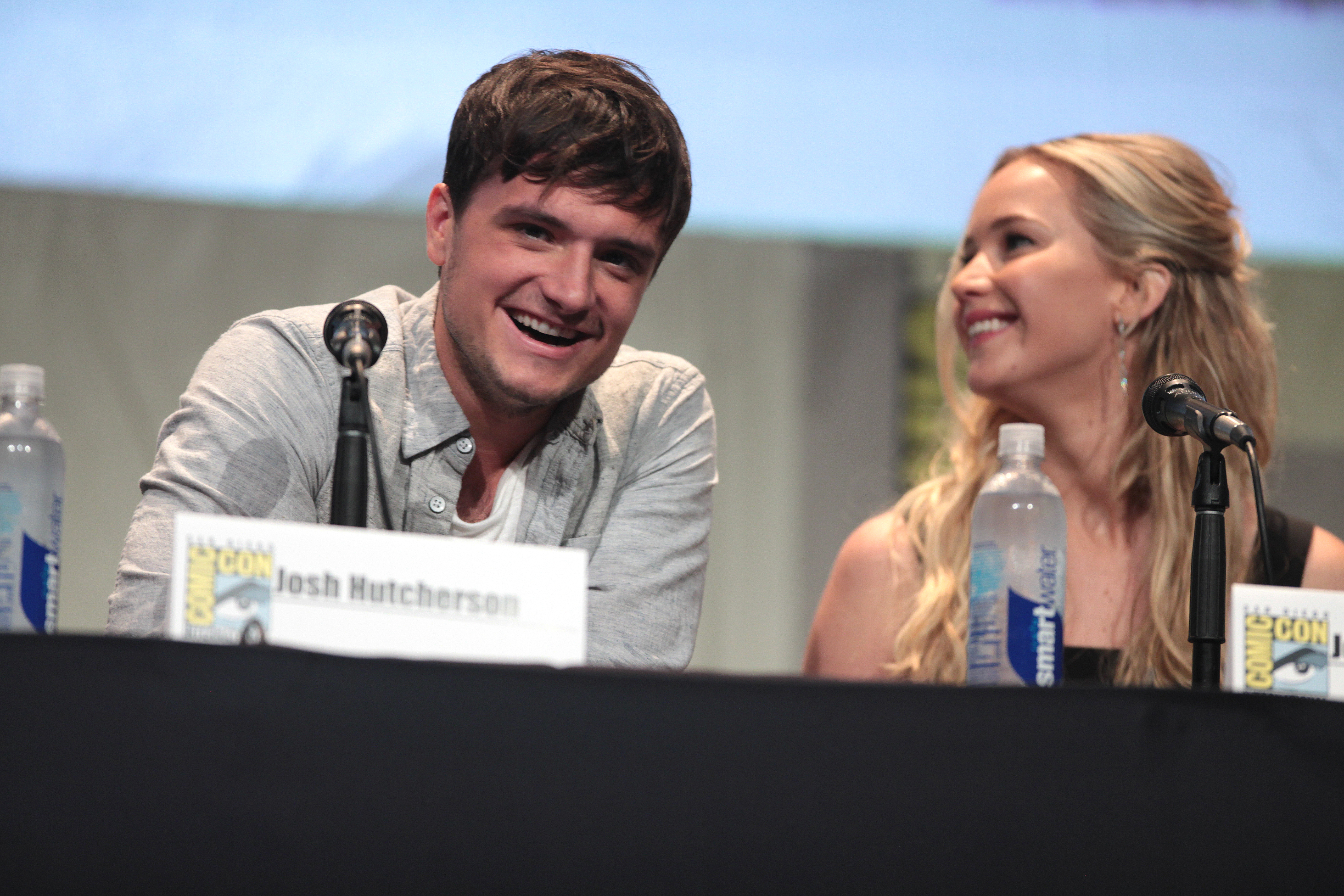 Josh Hutcherson and Jennifer Lawrence speaking at the 2015 San Diego Comic Con International, for "The Hunger Games: Mockingjay Part 2", at the San Diego Convention Center in San Diego, California.